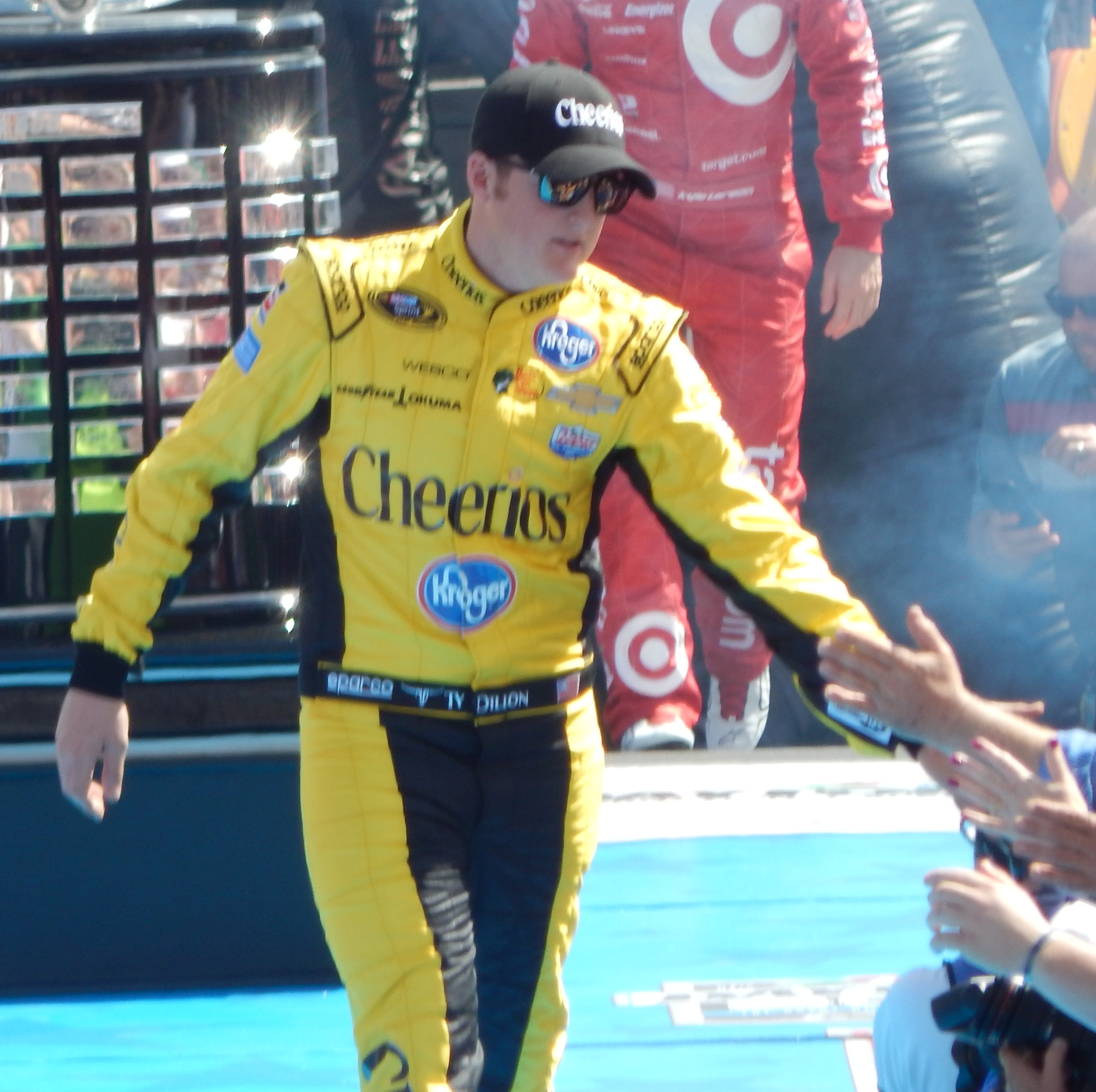 Ty Dillon being introduced at Daytona International Speedway.